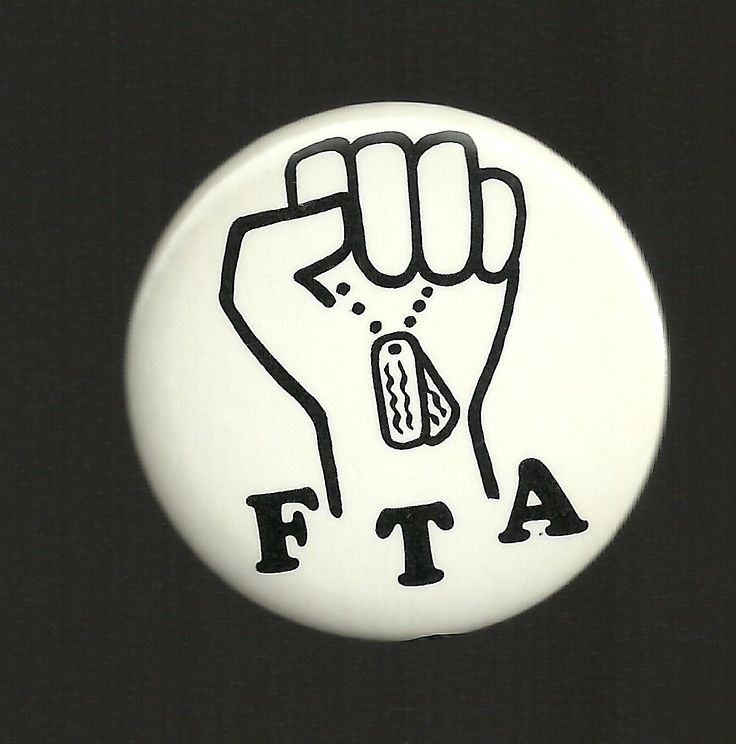 Logo of Movement for a Democratic Military (1969-75) - FTA is slang for F___ The Army.